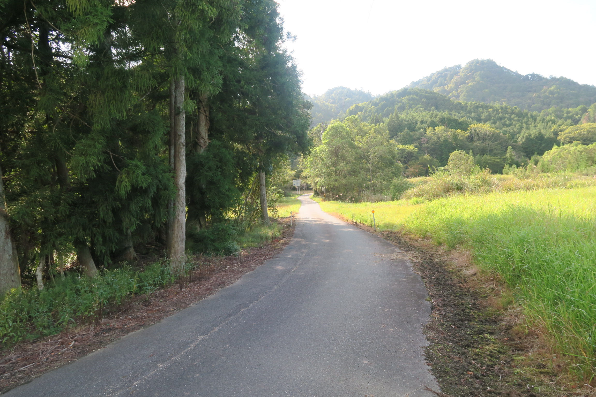 Iwao Pass between Koka and Iga